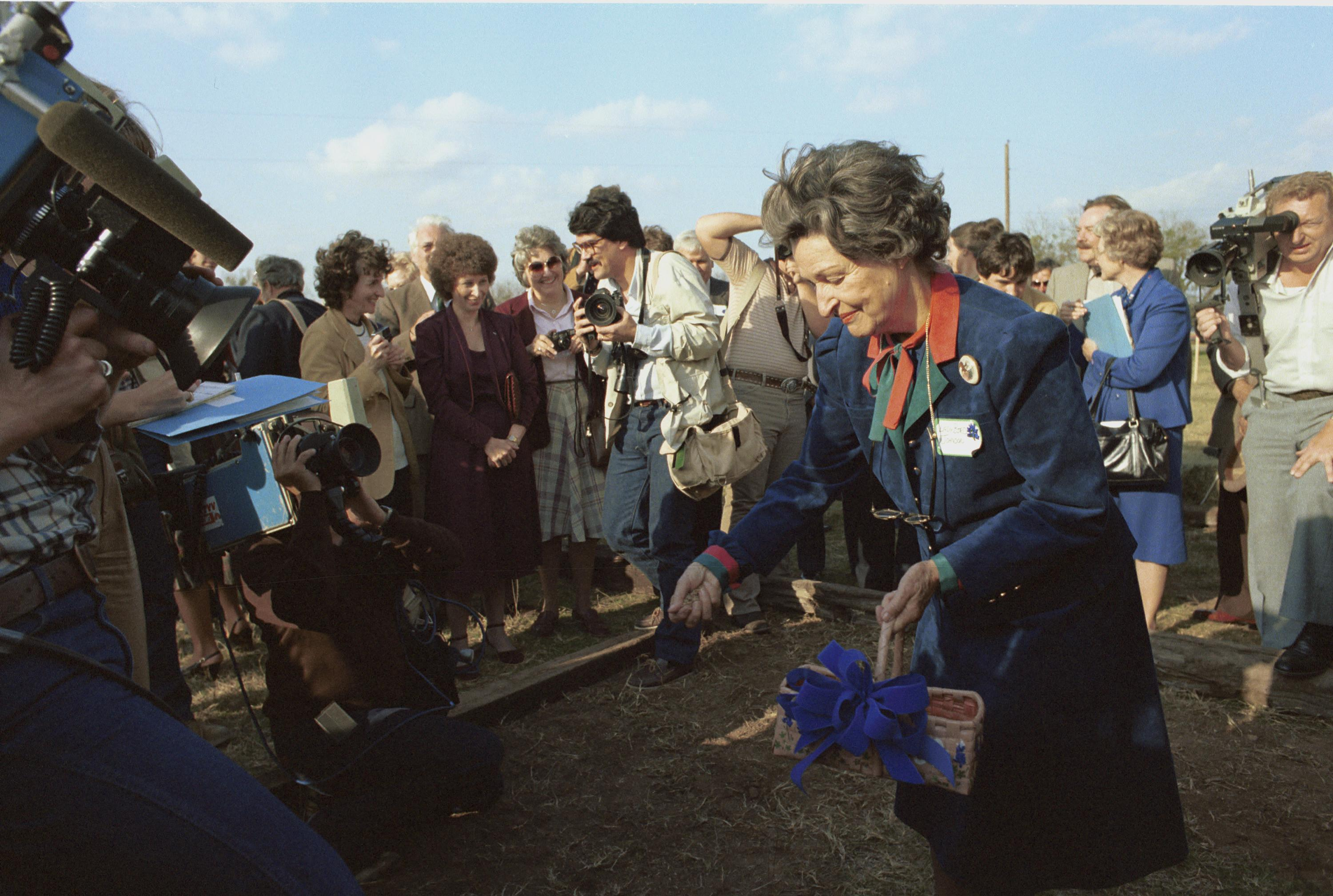 Ground-breaking Ceremonies for the National Wildflower Research Center. Lady Bird Johnson spreads seeds on the site of the National Wildflower Research Center.